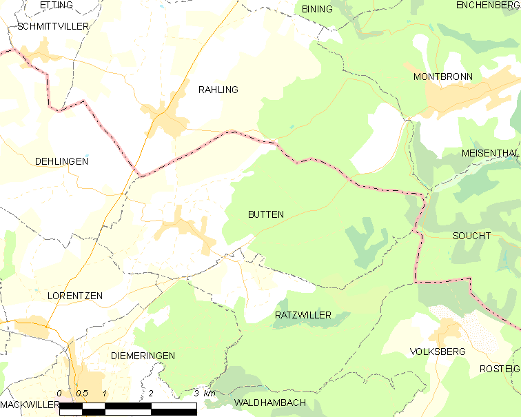 Map of French municipality